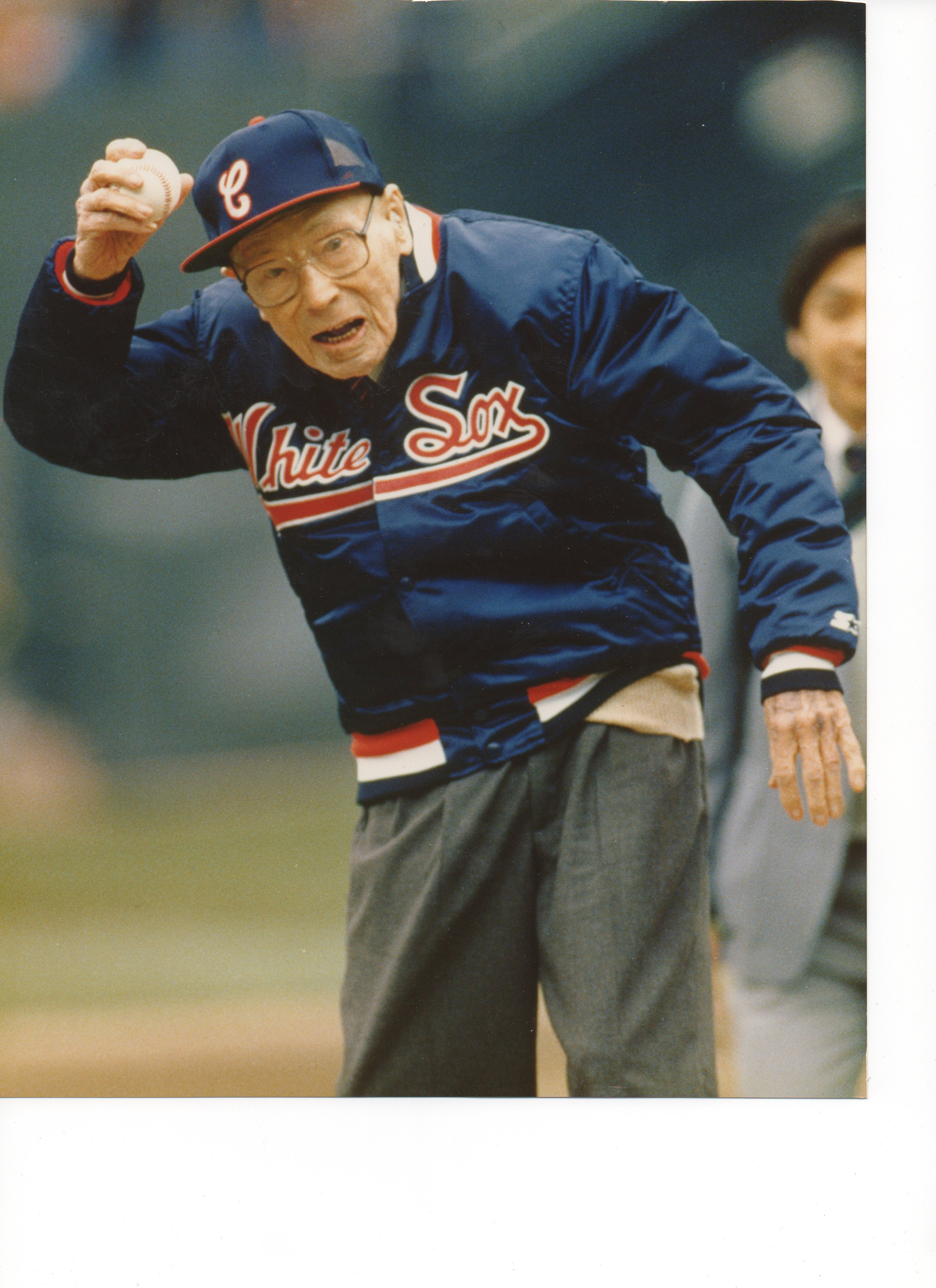 Joseph Burke throwing the first pitch on Opening Day. His last public appearance was in April 1988 at age one hundred when he threw out the first pitch at the Chicago White Sox game on Opening Day.